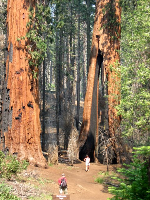 Closepin tree in the Mariposa Grove, Yosemite National Park